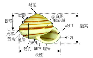 The structure of shell of Cepaea hortensis.